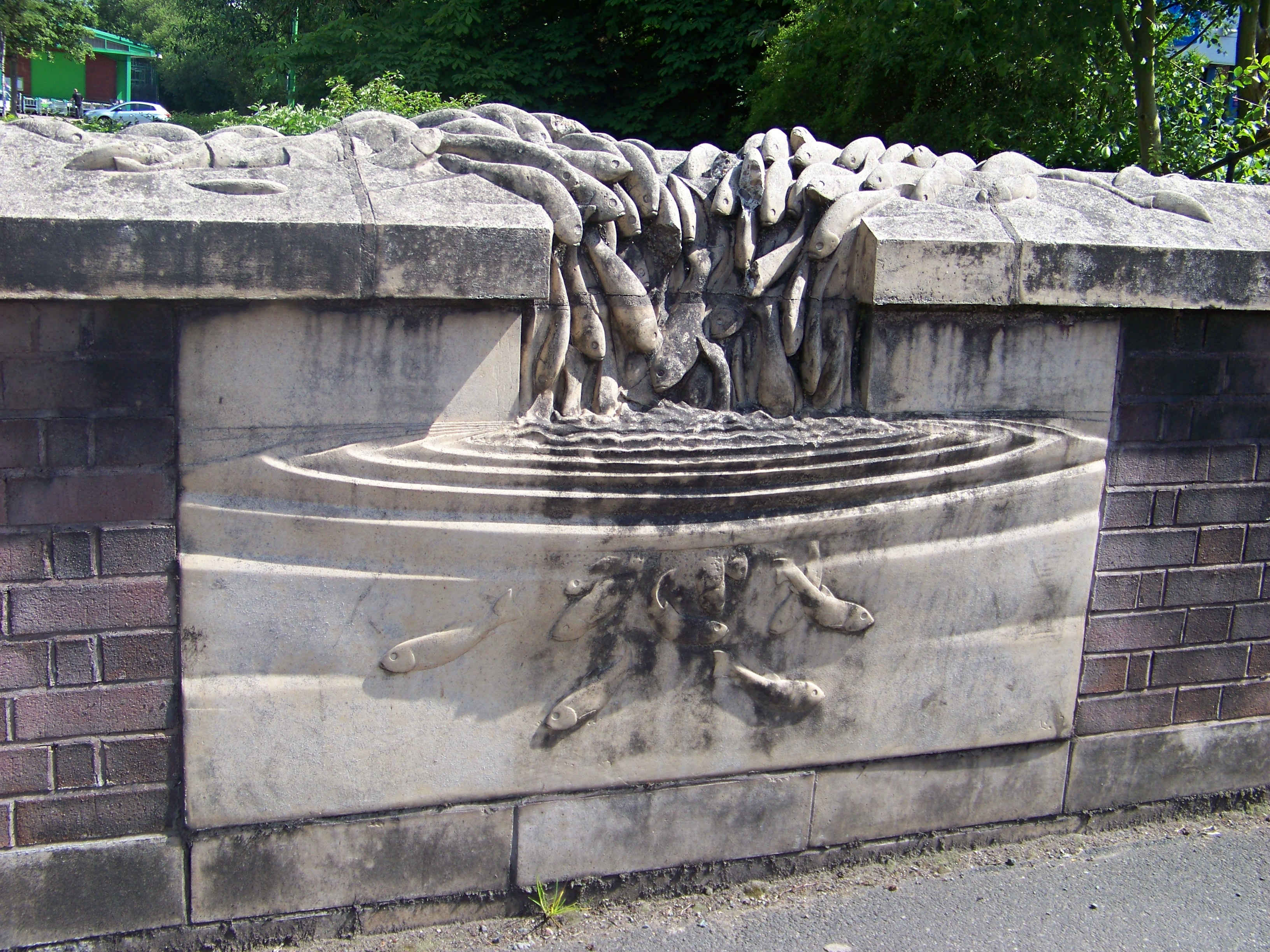 Road bridge over Lyme Brook, Newcastle under Lyme. This is a close-up of the south eastern side of the bridge on Brook Lane, (B5043). The parapet sculpture is dated 1995, by Ian Randall. It was commissioned to commemorate the completion of flood prevention works in 2000